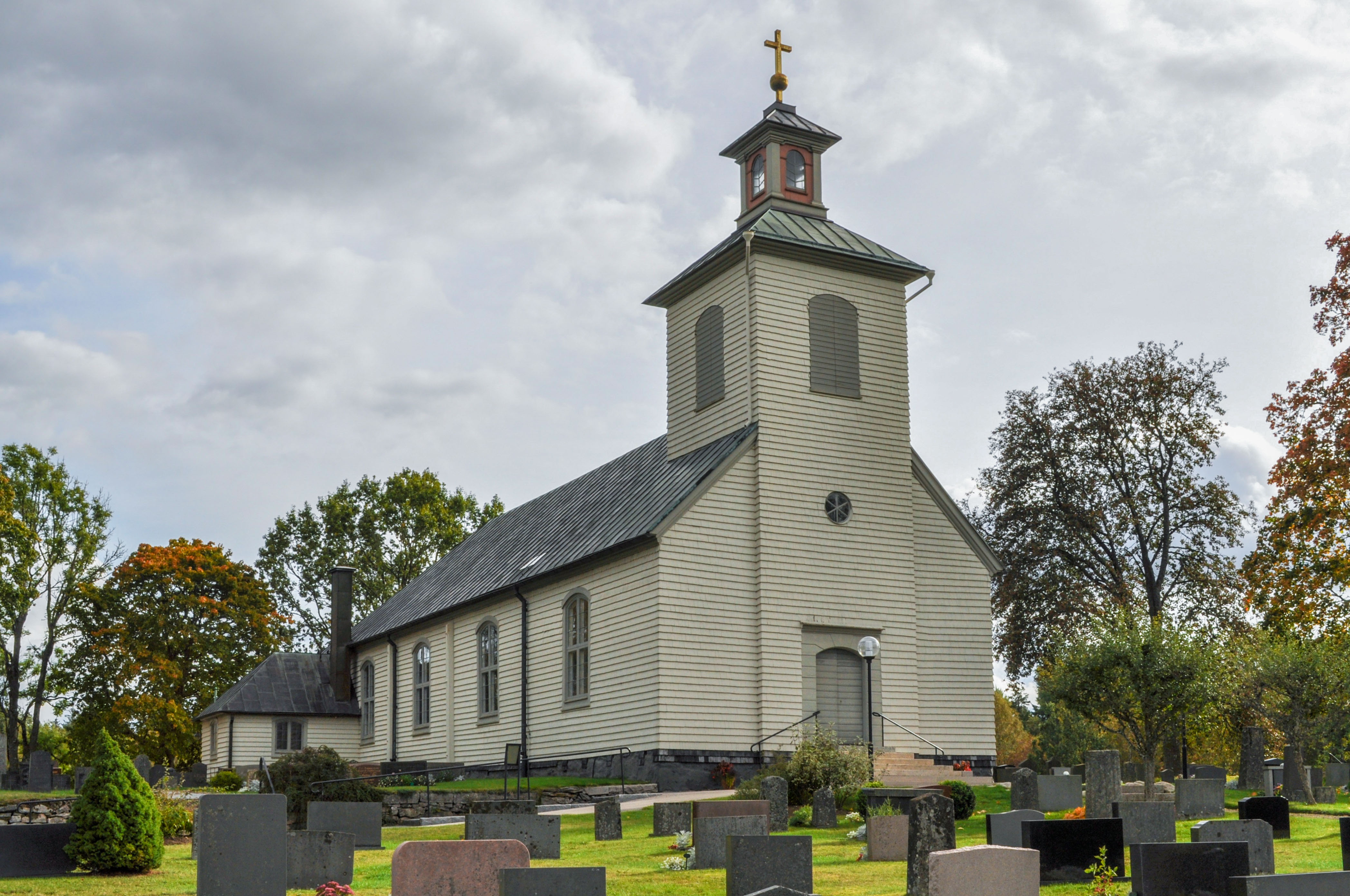 Härlunda church - kyrka